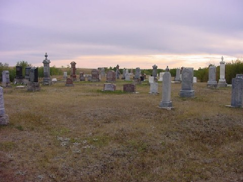 This is a photo of the Kenlis cemetery located near the former town site of Kenlis, Saskatchewan.